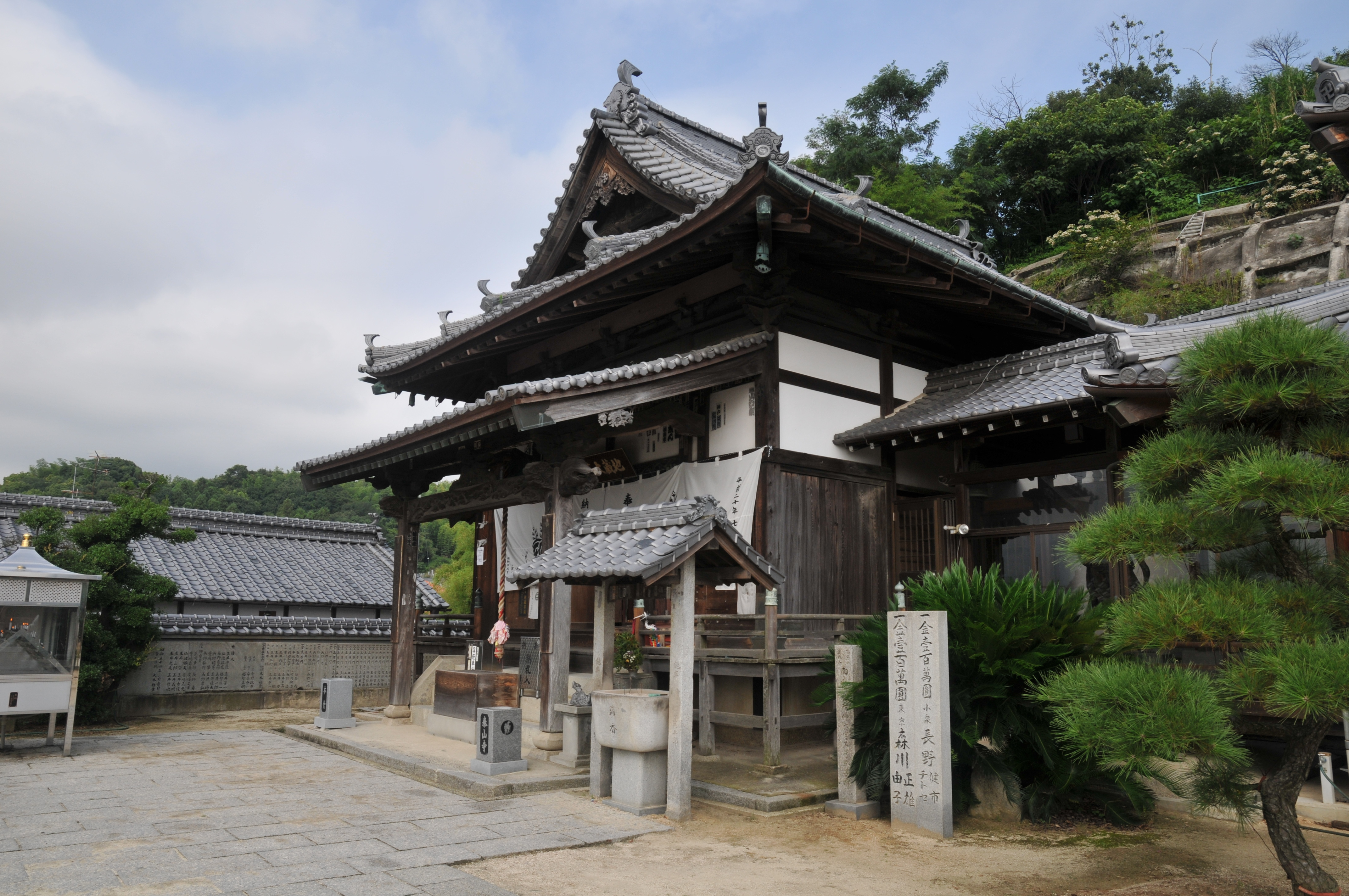 Main temple, Taisan-ji